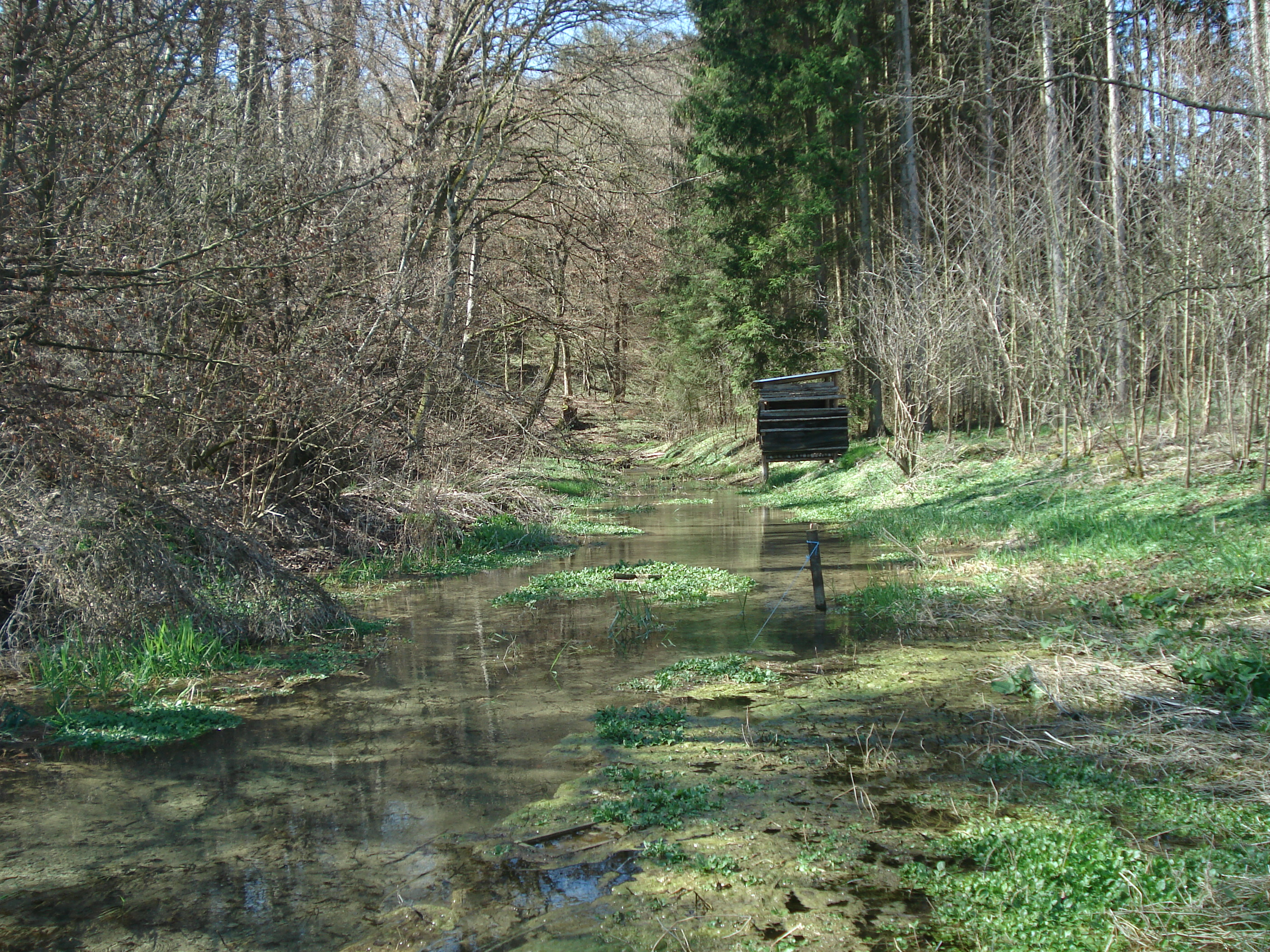 Spring of the Langwatte